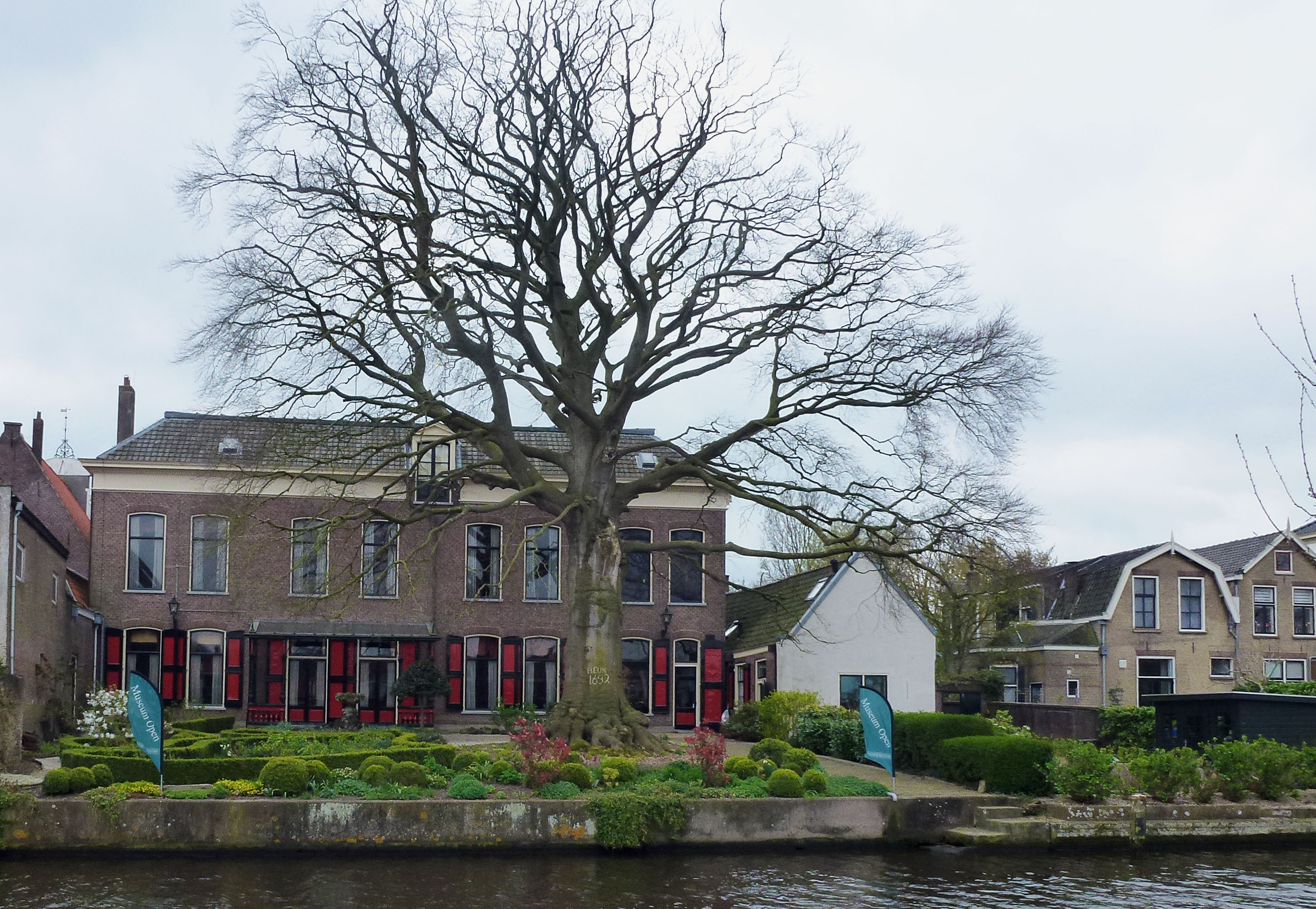 Garden along the Hollandse IJssel with European beech planted in 1692 in Haastrecht the Netherlands